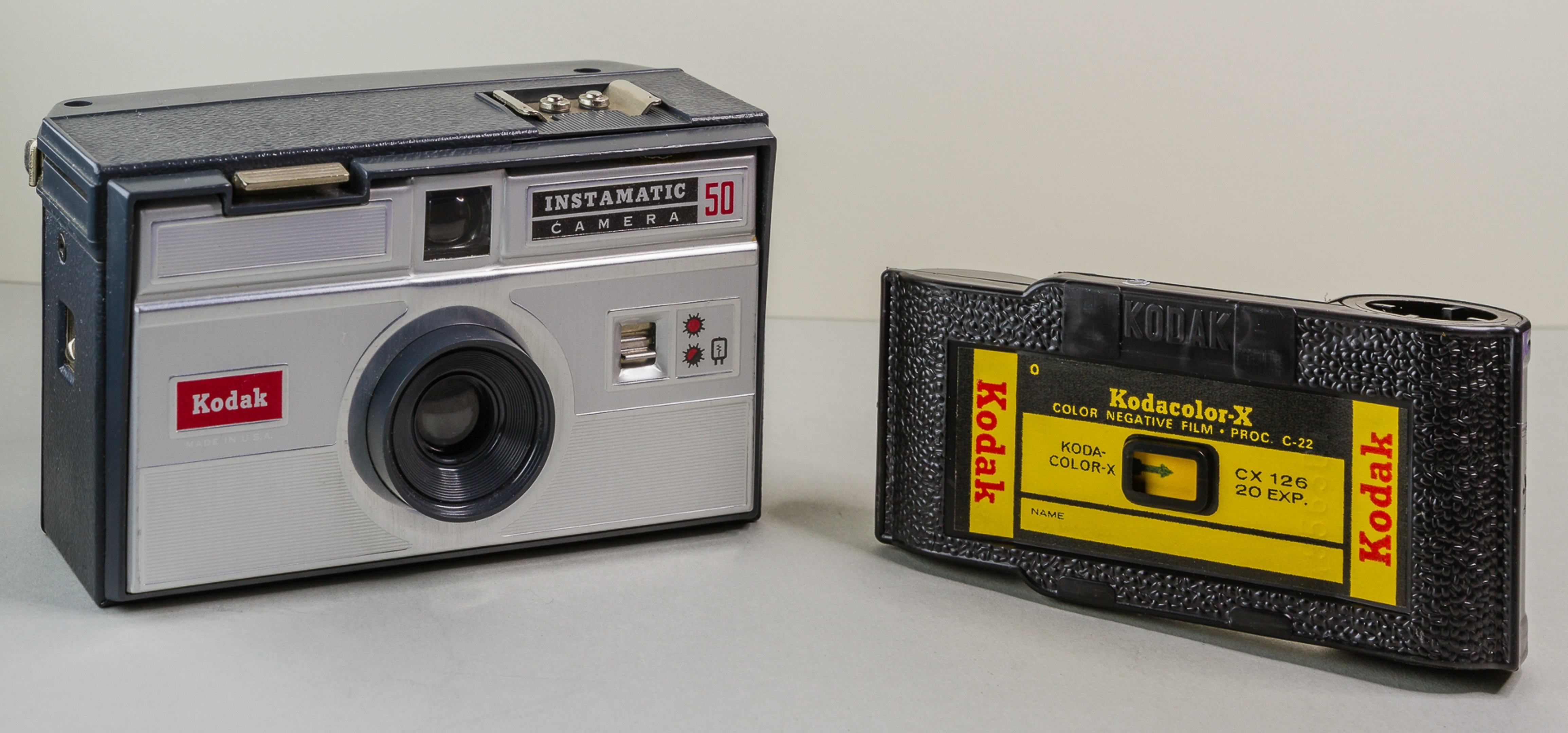 Kodak Instamatic and film cassette